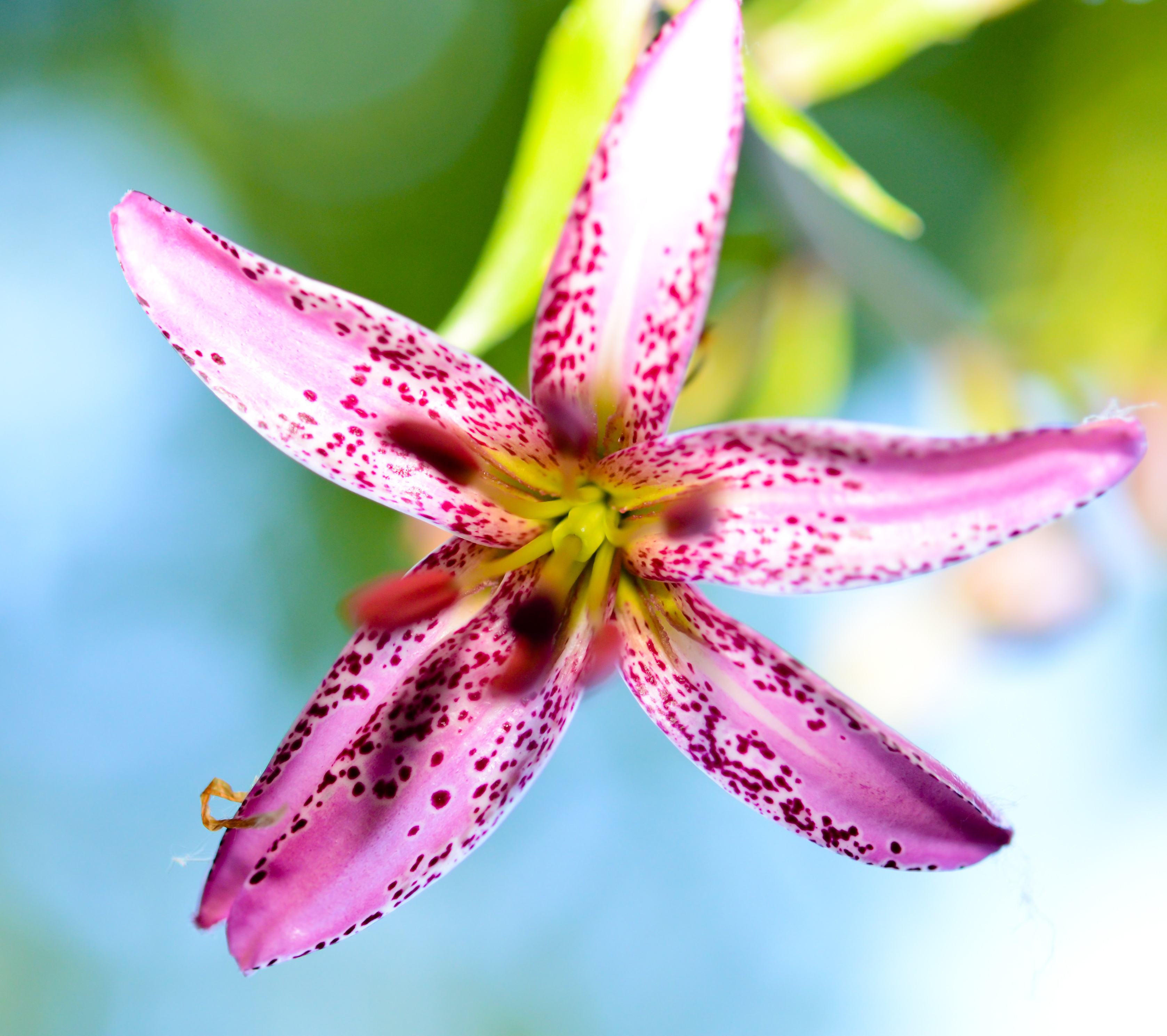 Lilium martagon (bottom view)